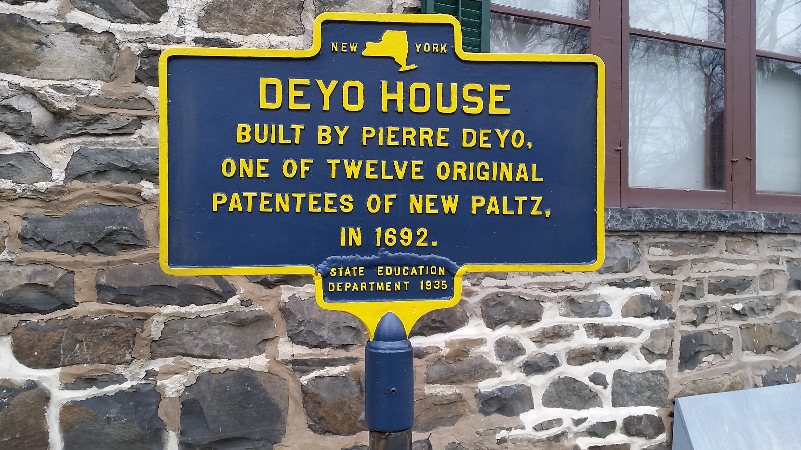 NY State Historic Marker at New Paltz's Huguenot Street Historic District for the Deyo House